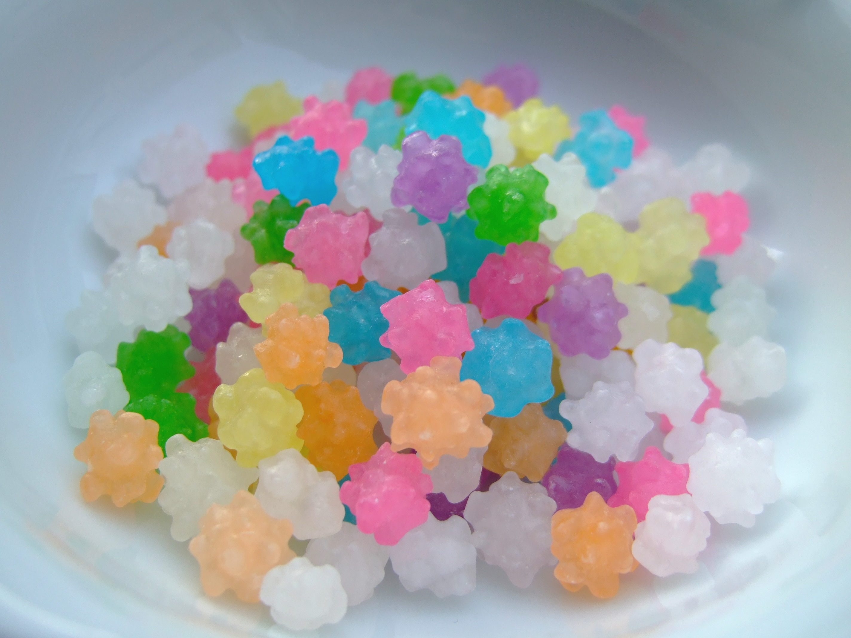 Kompeito